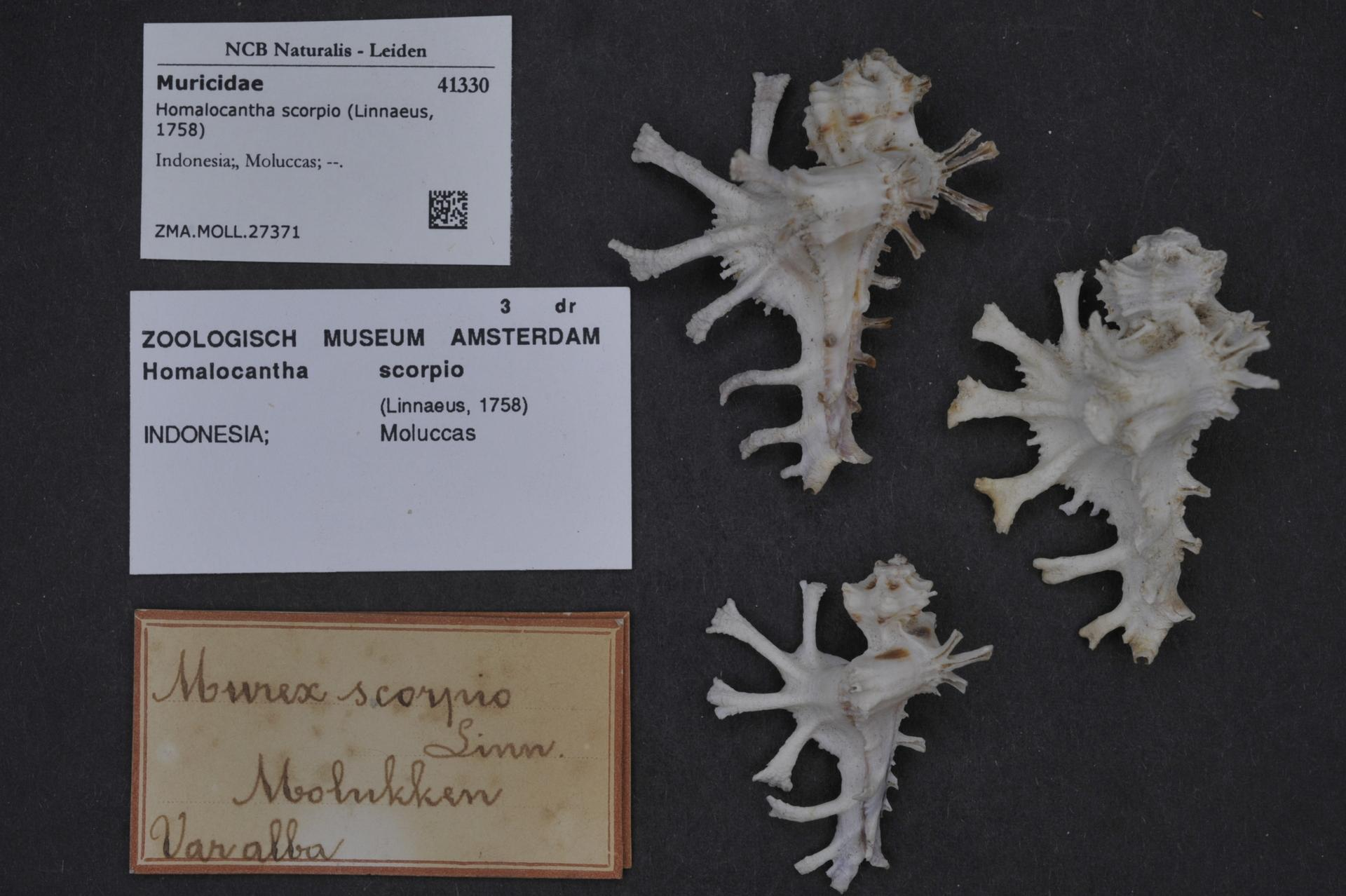 Homalocantha scorpio (Linnaeus, 1758)